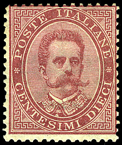 Postage stamp of Italy, King of Italy Humbert I, 10 centesimi, 1879